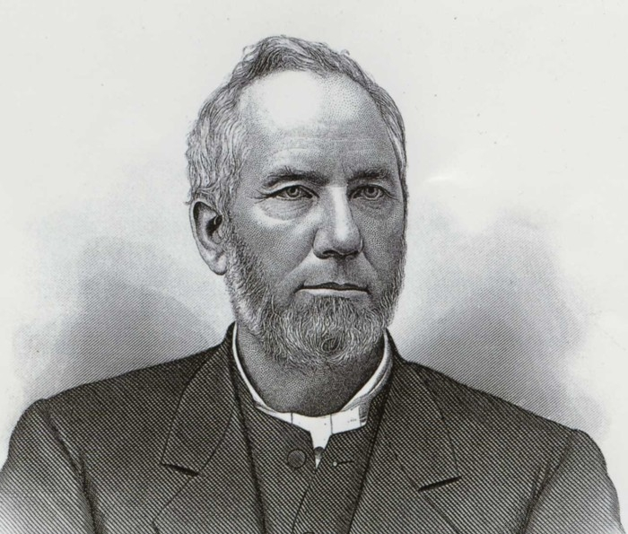 Methodist Bishop Holland Nimmons McTyeire. Published in: McTyeire, Holland Nimmons, 1824-1889, and Jno. J. (John James) Tigert. Passing Through the Gates: And Other Sermons. Nashville, Tenn.: Publishing House of the M.E. Church South, 1889, Frontispiece